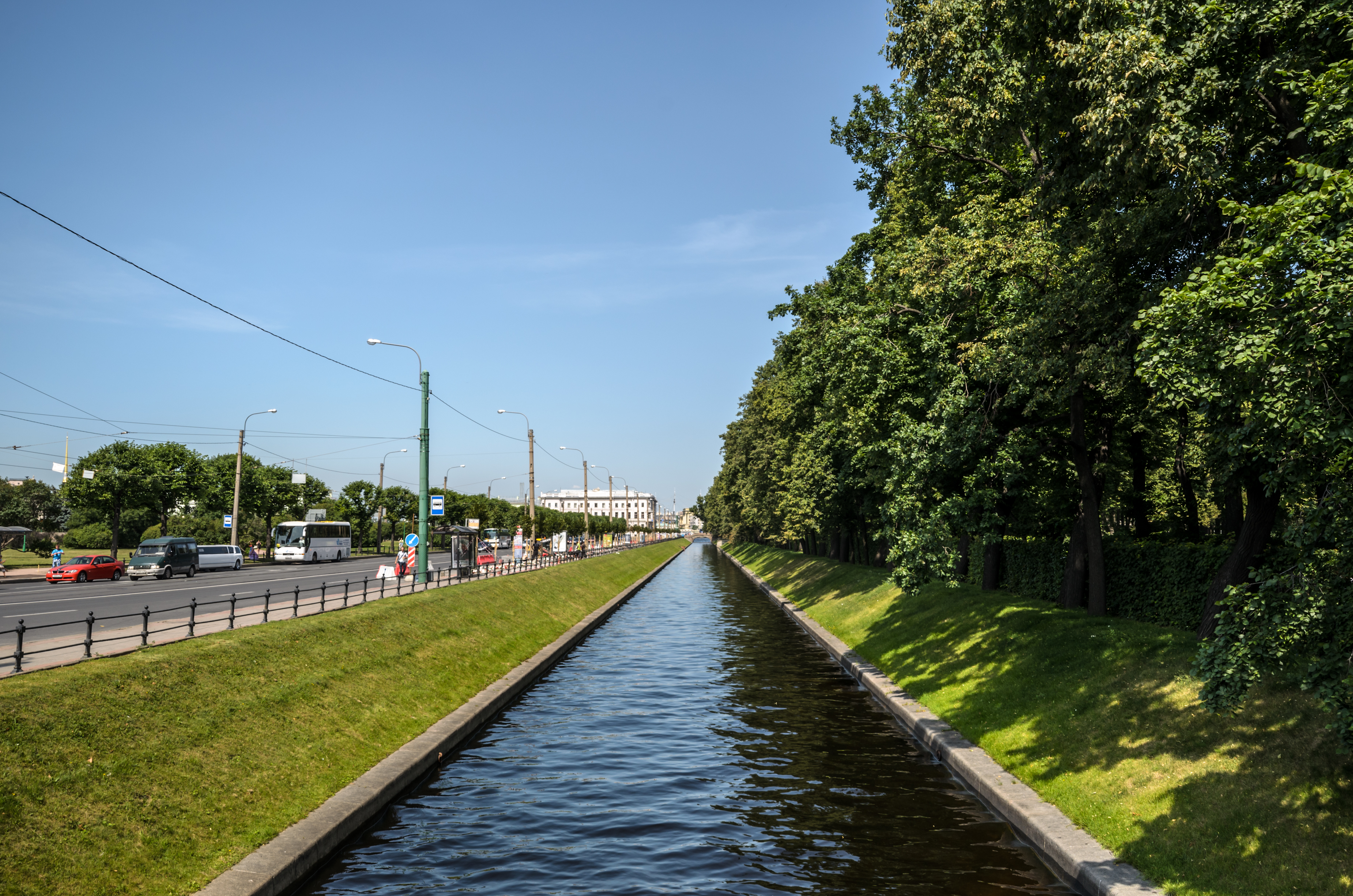 Lebyazhy Canal in Saint Petersburg